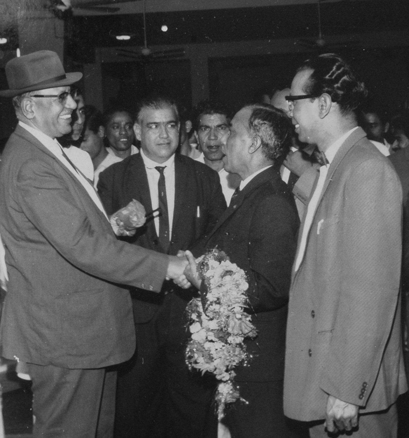 Khuda Buksh receiving P.M. Robello at Tejgoan Airport, Dhaka, 1963